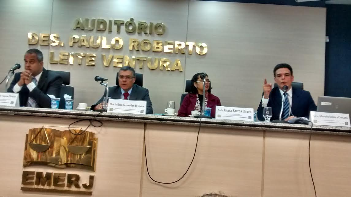 MARCELO MORAES CAETANO, ESCOLA DA MAGISTRATURA